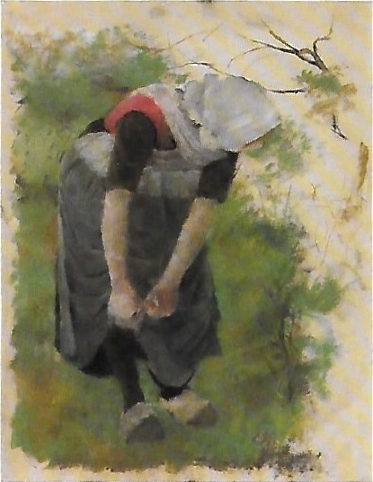 Study in pastel for Returning from work